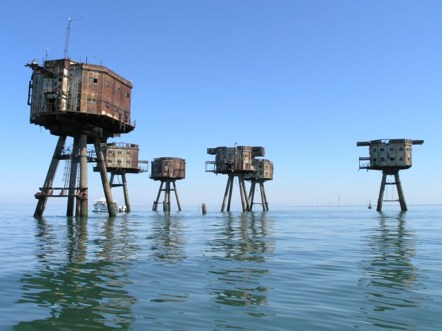 Shivering Sands Maunsell Army Fort Built between 1942-1943 to provide anti-aircraft support for London, was abandoned soon after the War ended. It was in brief occupancy in the mid 1960s when the pirate radio station Radio City used the towers (then linked with gantries) as a base of operations.